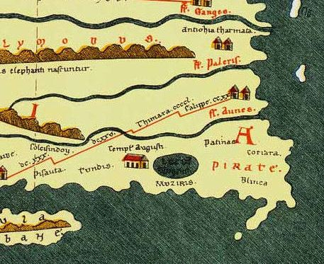 Muziris in the Tabula Peutingeriana (the temple of Augustus is also visible in muziris)